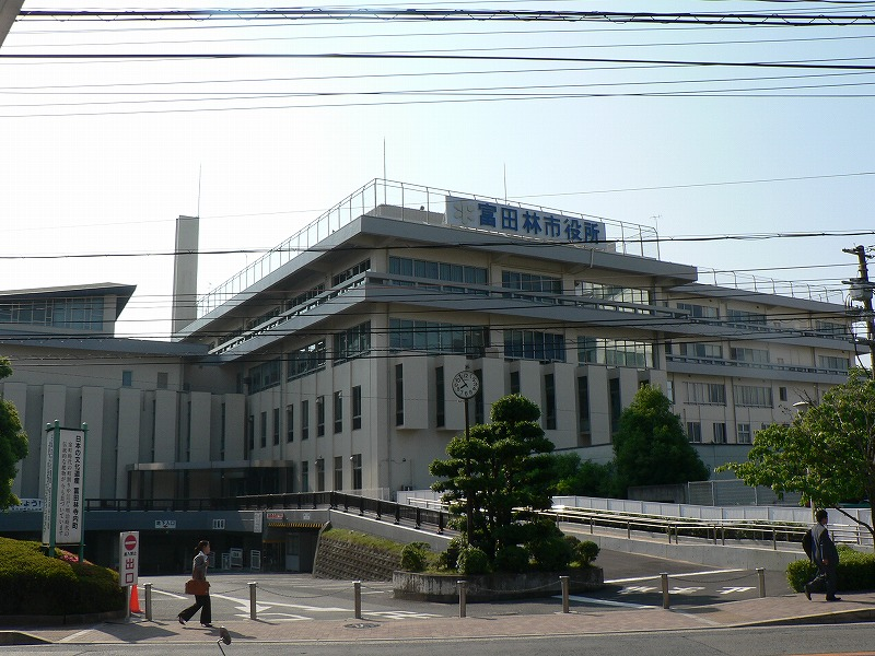 Tondabayashi city office , Osaka, Japan （富田林市市役所庁舎）